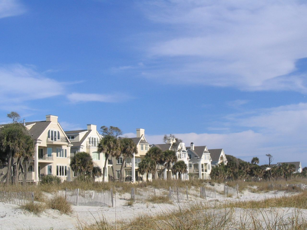 Houses overlooking the beach at Hilton Head Island, South Carolina